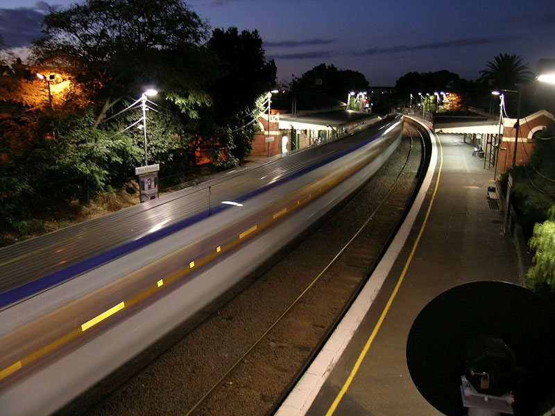 Train passing through West Richmond station.